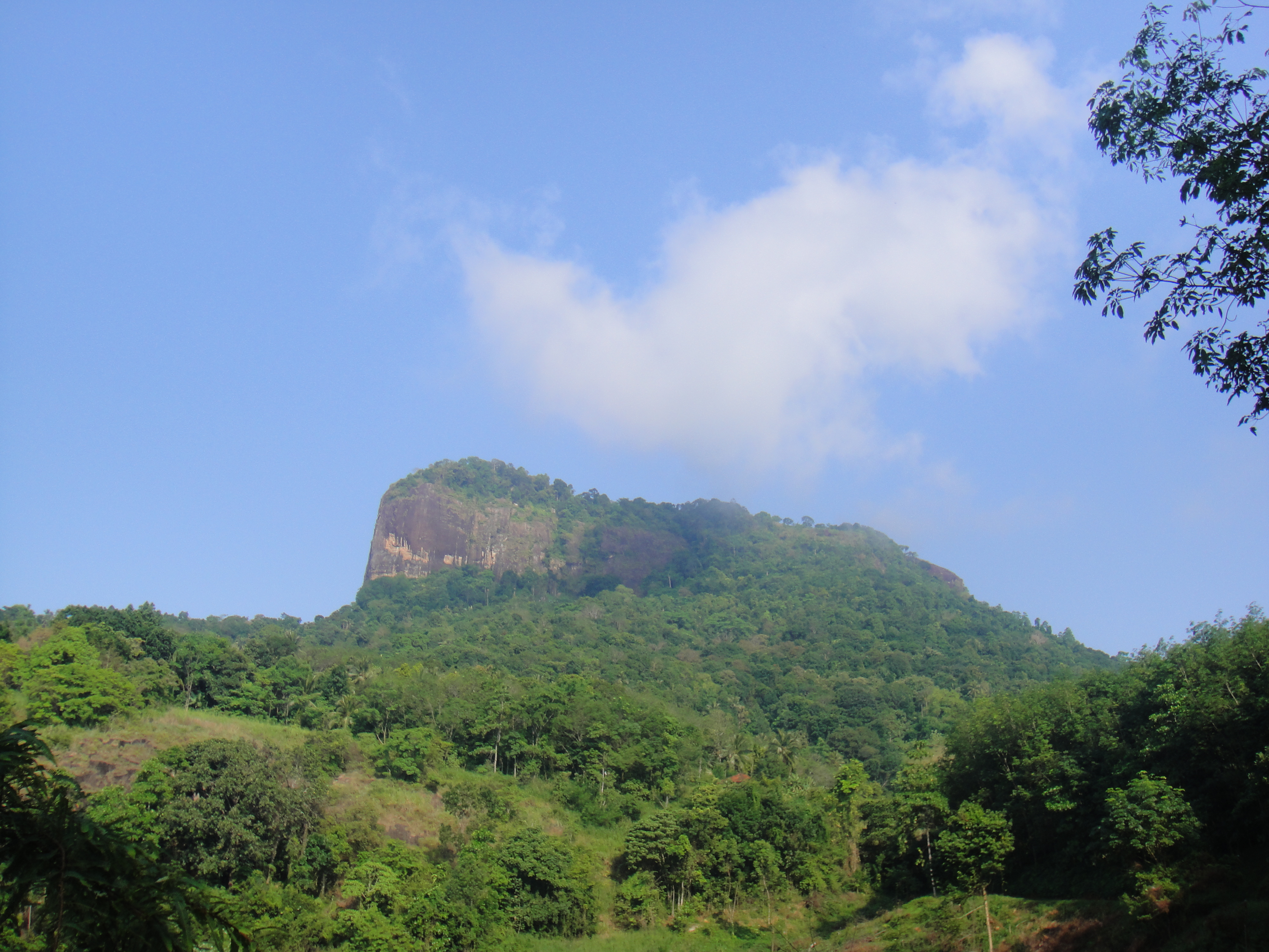 Bathalegala as seen from Ambadeniya State